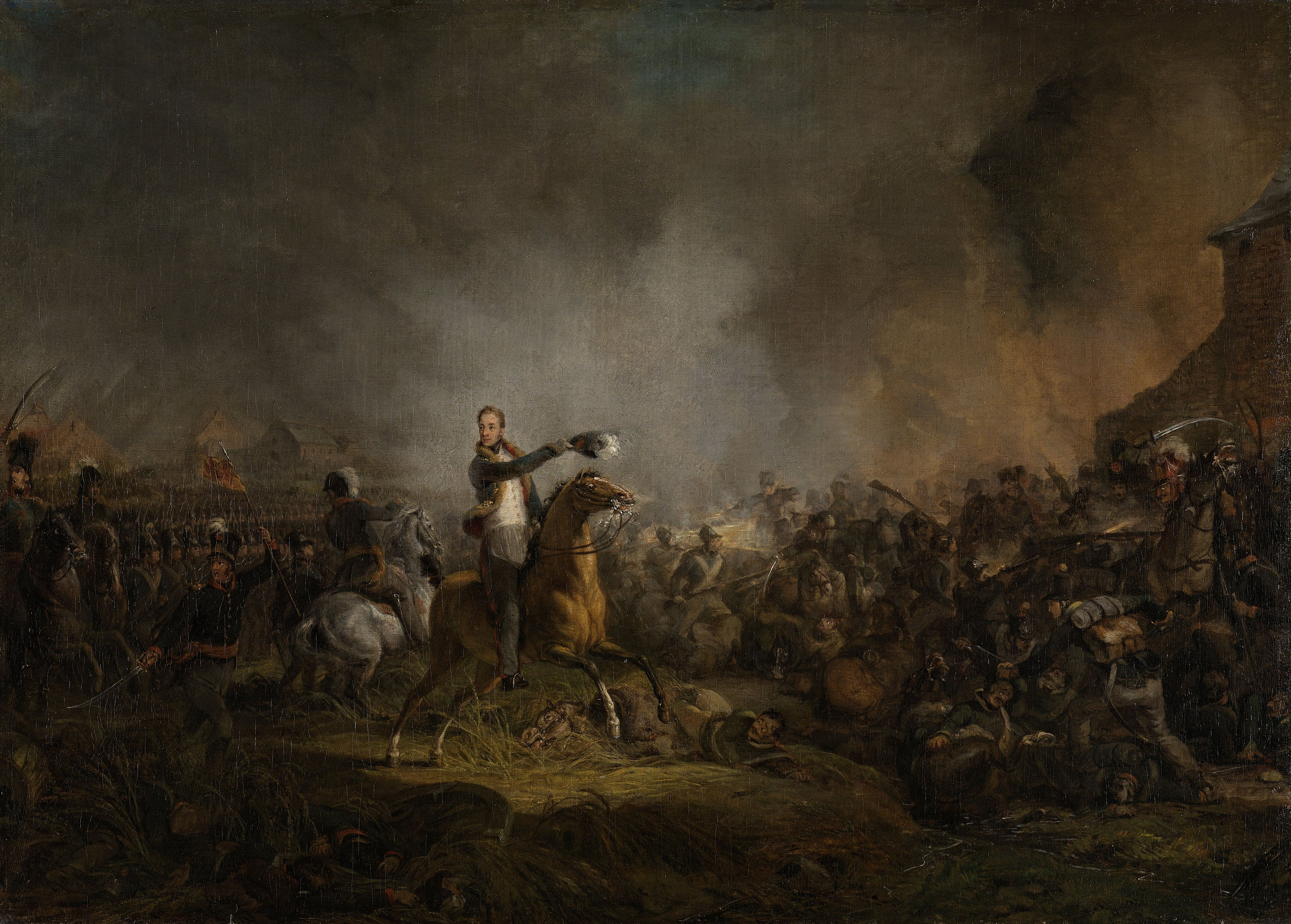 Image of the prince of Orange (later king William II of the Netherlands) at the Battle of Quatre-Bras. The prince is on a horse in the center of the picture. Fresh troops are marching in on the left. The battle is in full swing on the right. This canvas was a sketch for a larger work in the Soestdijk Palace.